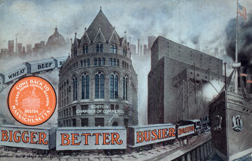 Postcard from the Boston, Massachusetts Chamber of Commerce with the slogan "A Bigger, Better Busier Boston".